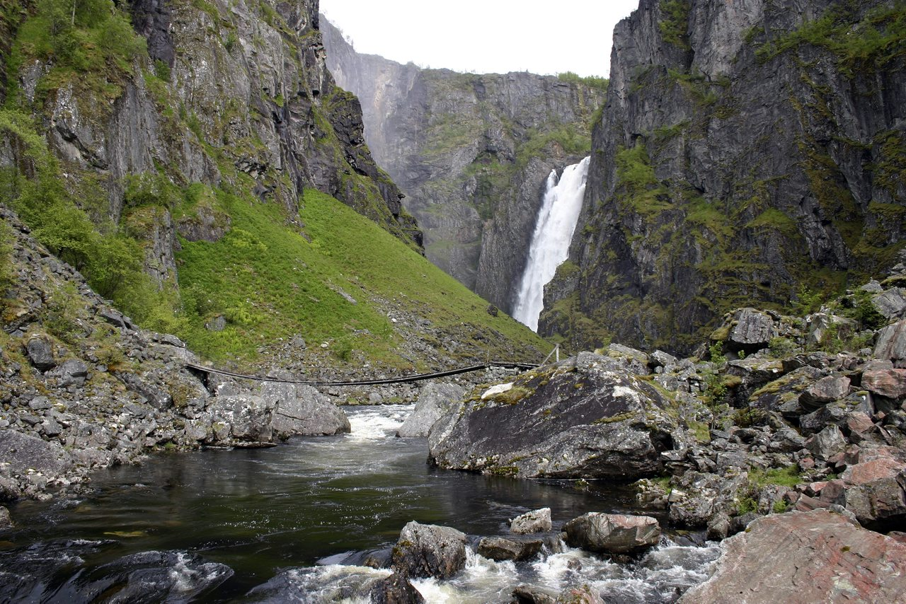 Vøringsfossen in Hordaland, Norway.